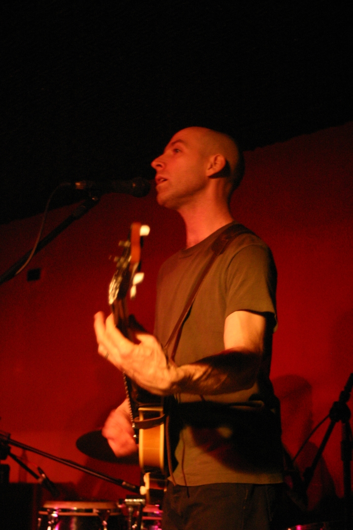 Joe Lally